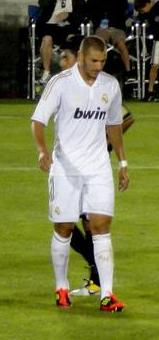 Karim Benzema and Mesut Özil playing for Real Madrid against Los Angeles Galaxy.